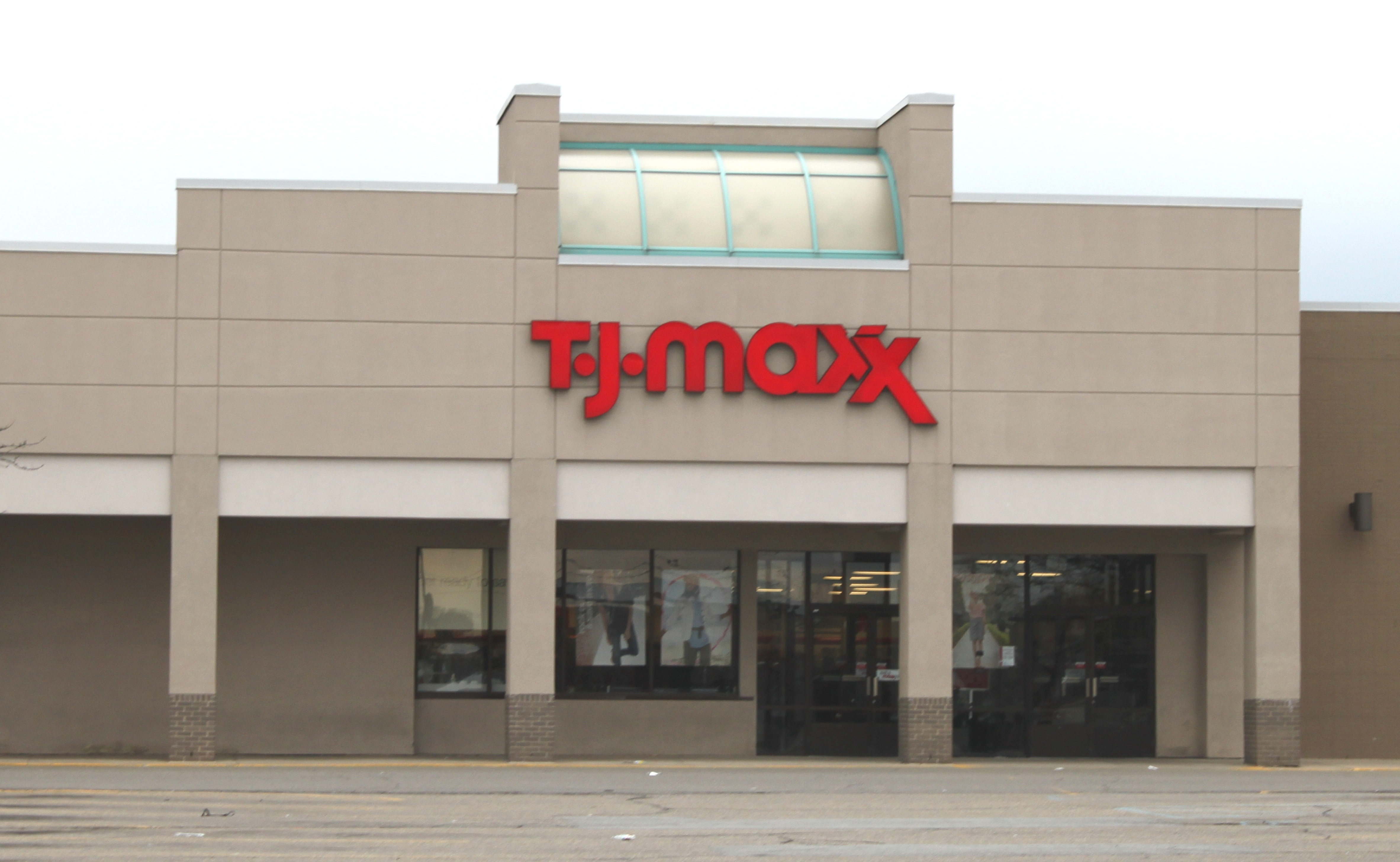 T.J. Maxx store, Ypsilanti, MI